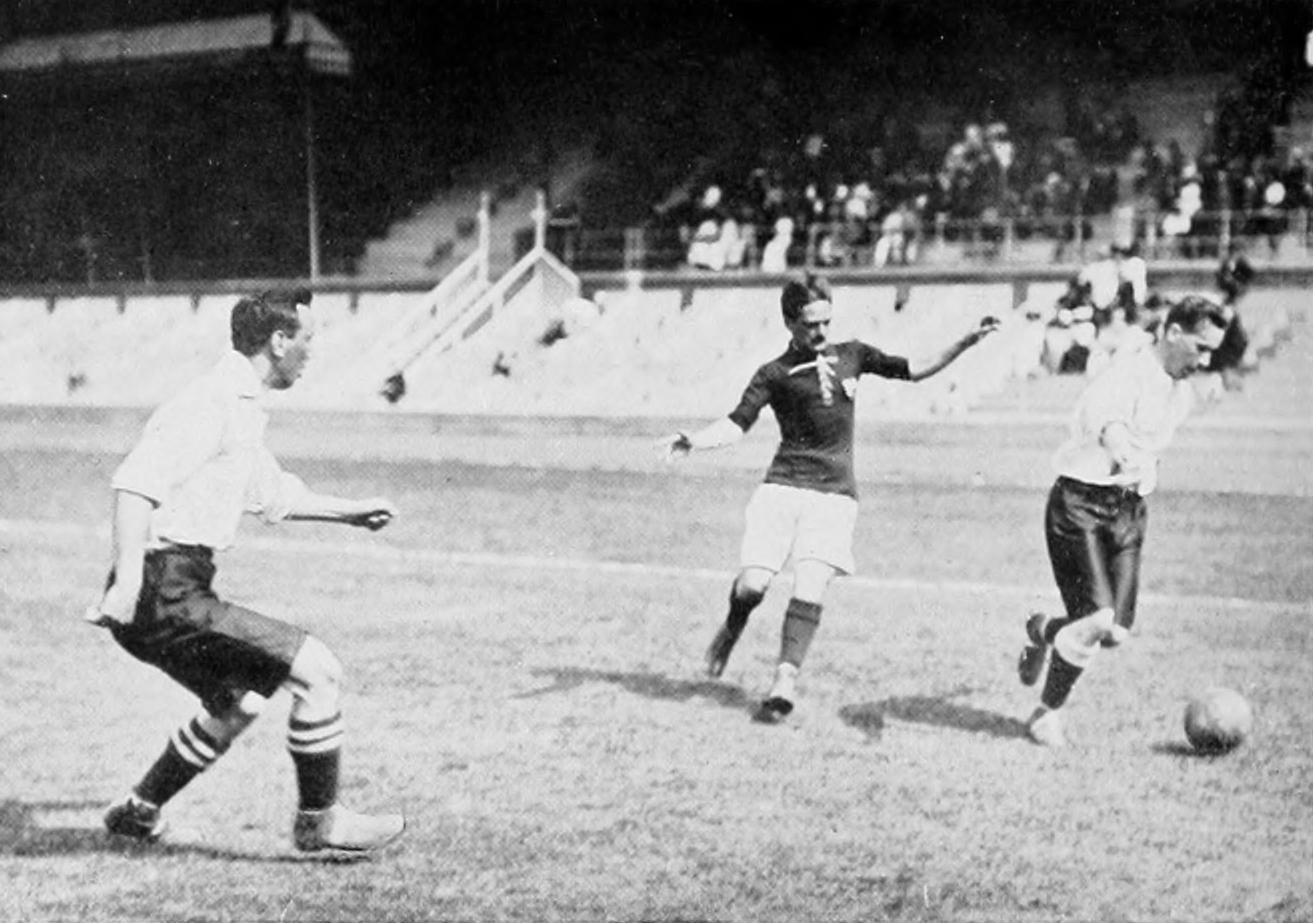 Quarterfinal of the football competition at the 1912 Summer Olympics (Hungary in dark jerseys).